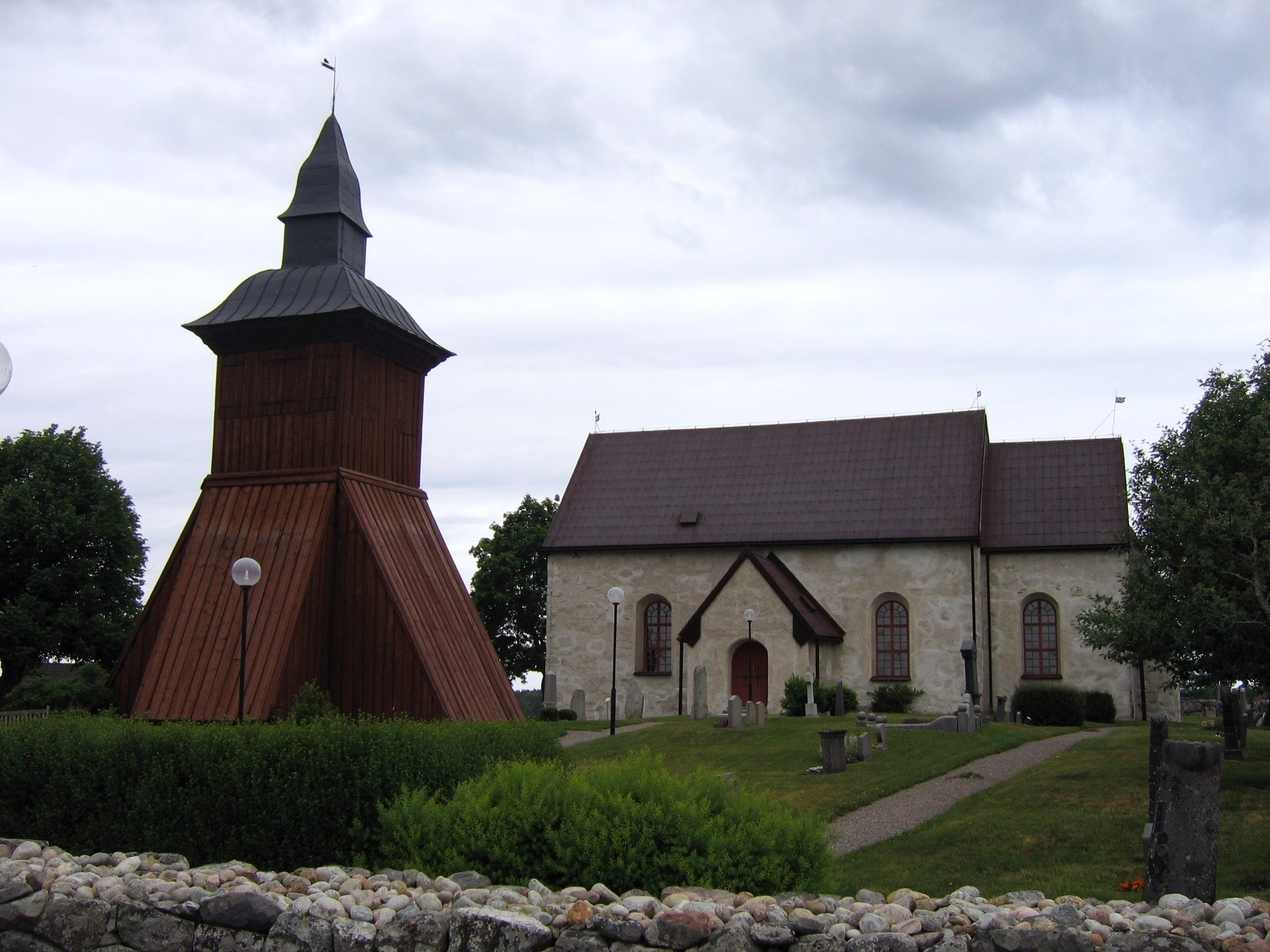 Church of Orkesta in Vallentuna municipality.